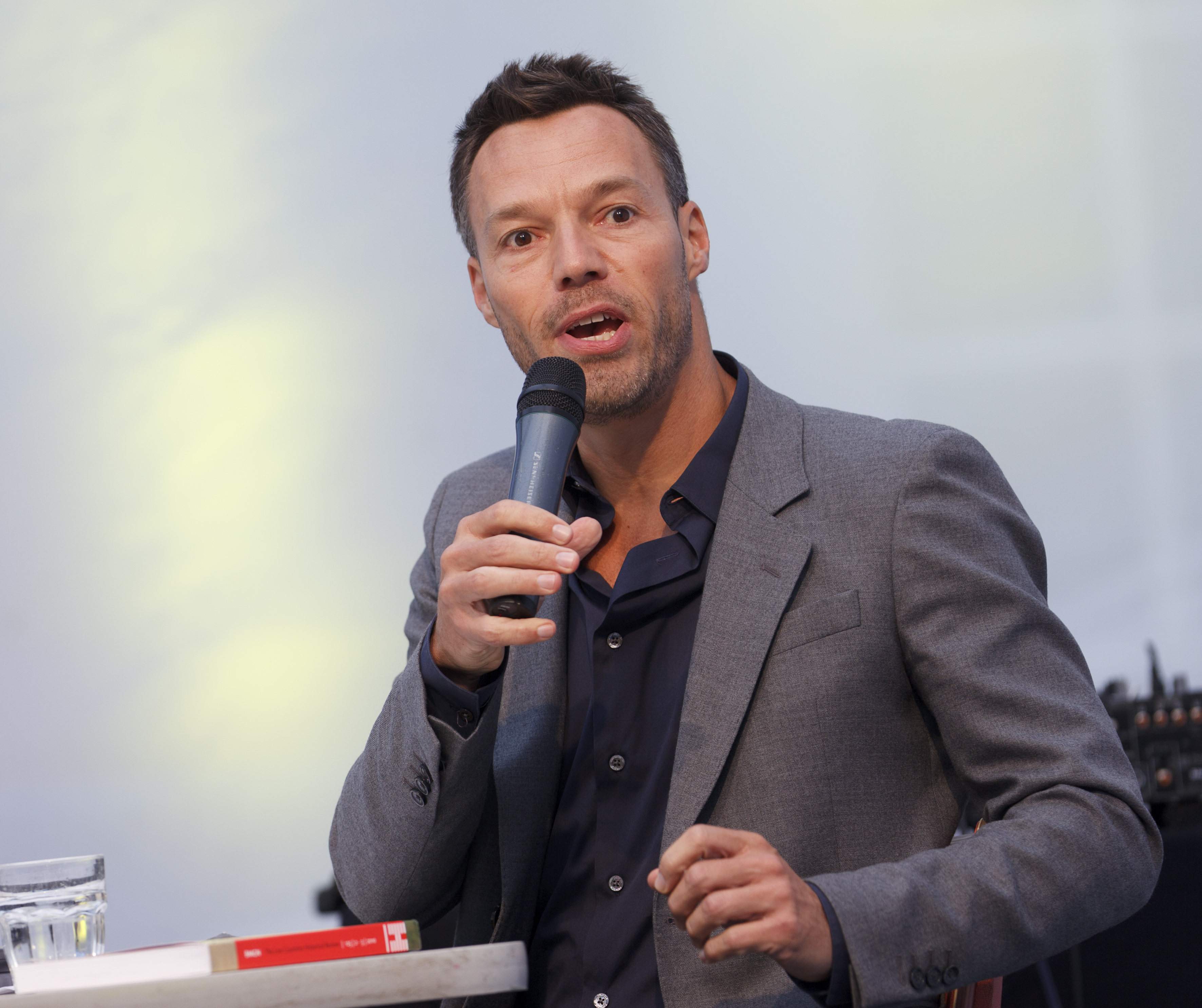 Hans Goedkoop in 2010 The Holland History House is your meeting place during the ICHS2010 congress week in Amsterdam. Every day, from Monday the 23rd to Friday the 27th of August, from 5 pm to 8 pm (and from 5 pm to 11 pm on Friday), the Holland History House offers historical entertainment, the Remains of the Day talk show and live music. Entrance to the Holland History House is free of charge.